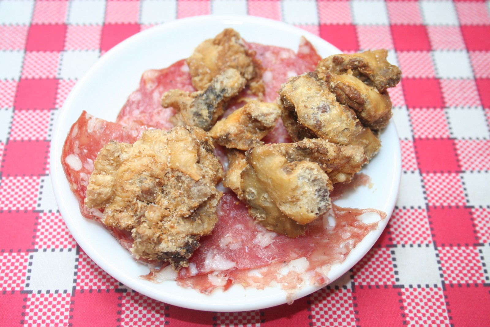 speciality from Lyon : Grattons and saucisson